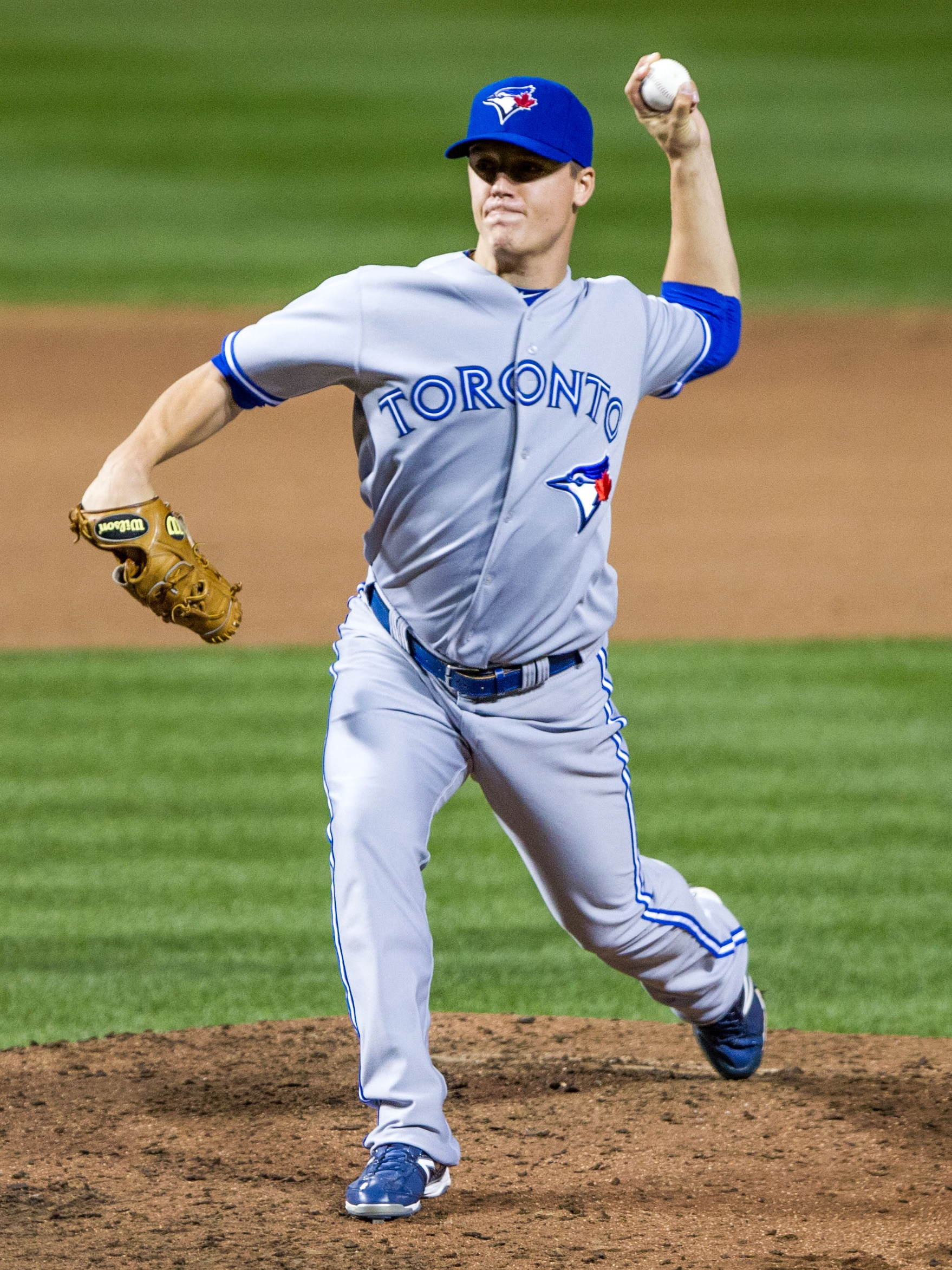 Toronto Blue Jays at Baltimore Orioles August 25, 2012